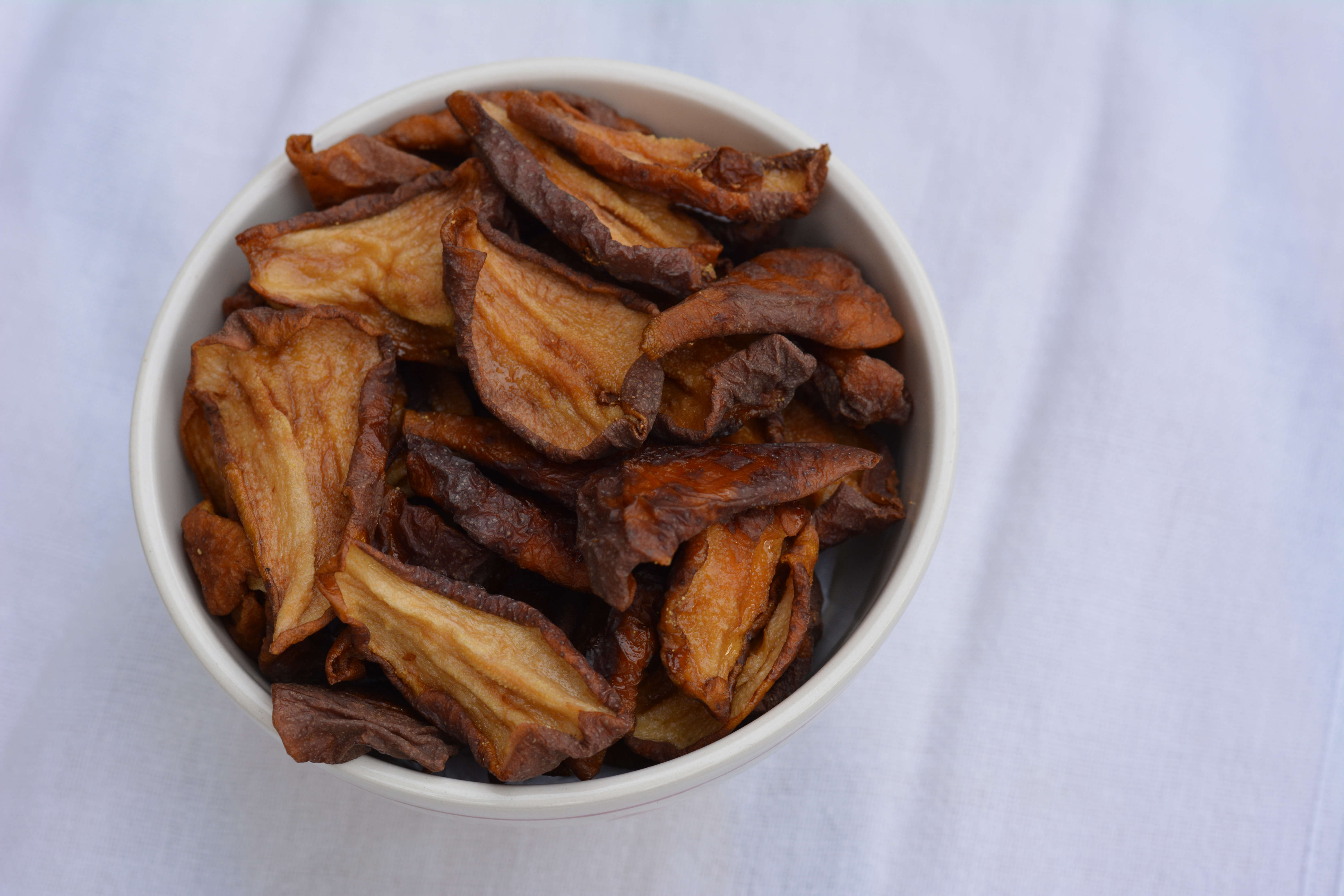 Dried fruis of the US-American pear variety "Seckel pear".